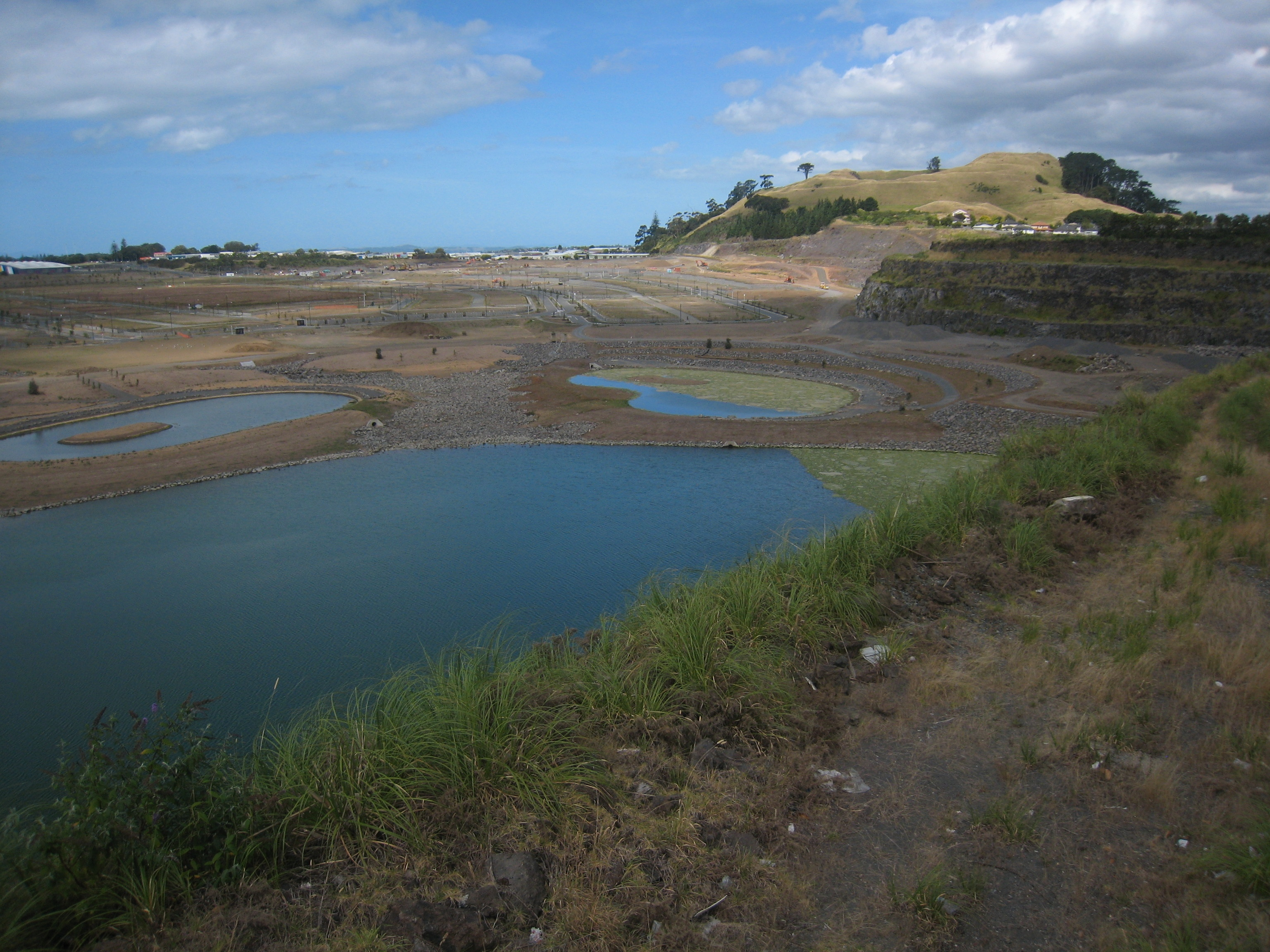 Mount Wellington is visible behind this quarry to its north, which is being redeveloped for residential purposes.